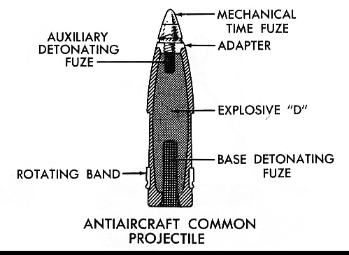 5"/38Cal Anti-Aircraft Common Projectile. Cropped and cleaned portion of image scanned from source.